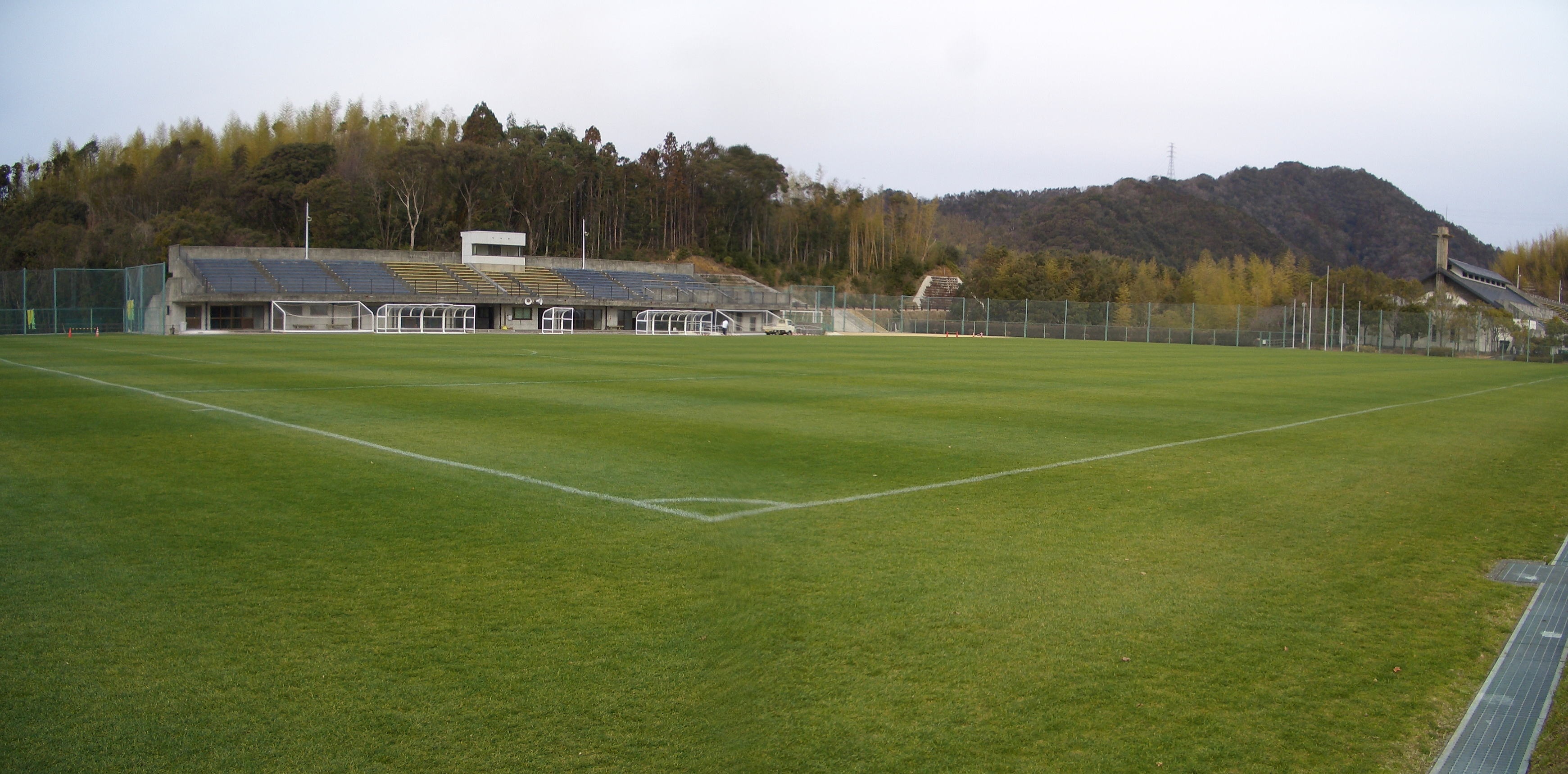 Haruno Sportspark FootballStadium. Kochi-Shi,Japan